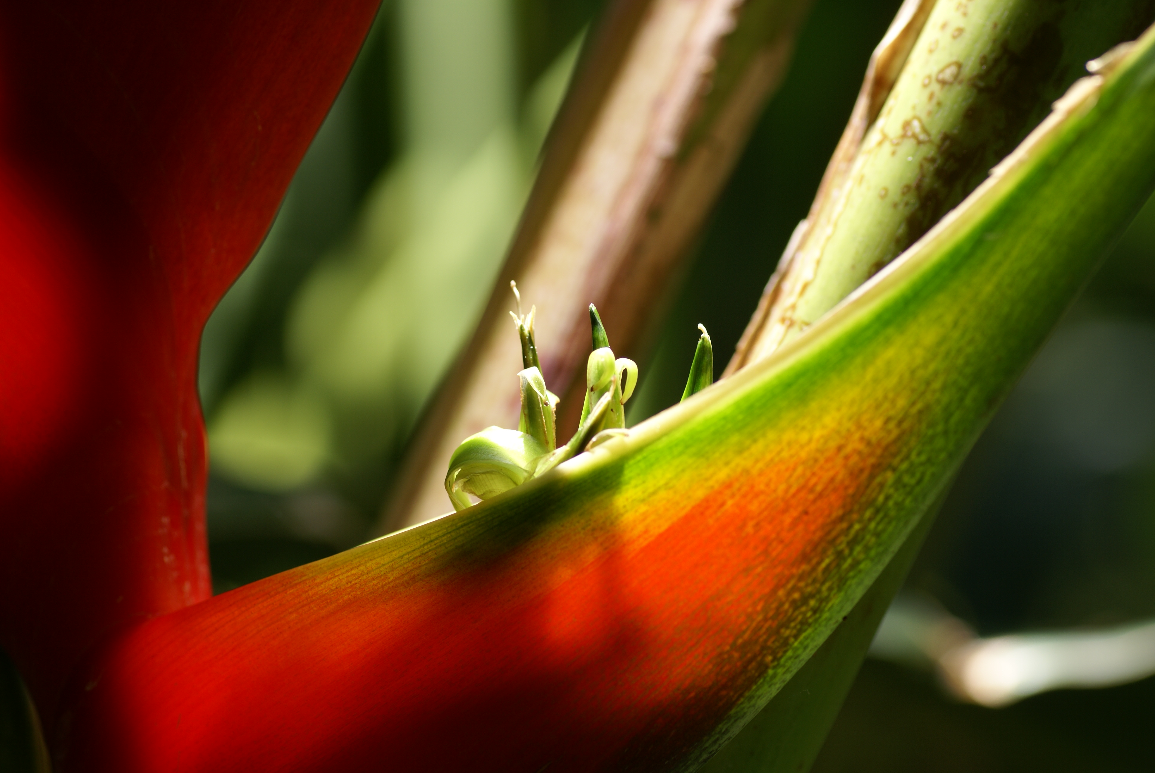 Closeup on flower of plant species Heliconia bihai in the botanical garden in Puerto de la Cruz on Tenerife.